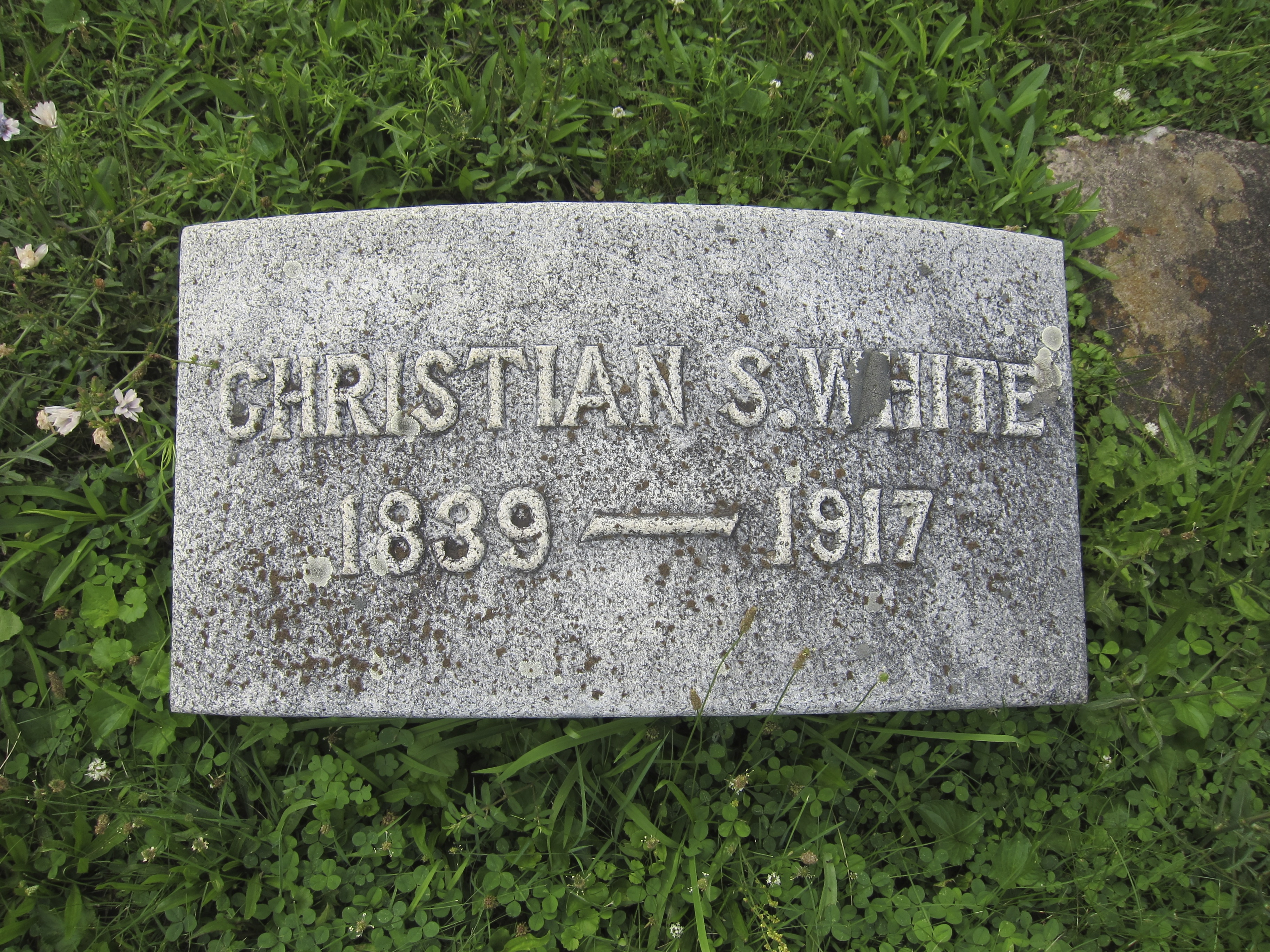 Gravestone at the interment site of Christian Streit White at Indian Mound Cemetery. Photographed on 13 July 2013. Christian Streit White (March 10, 1839 – January 28, 1917) was an American military officer, lawyer, court clerk, and politician in the U.S. states of Virginia and West Virginia. White served as the Clerk of Court for Hampshire County, West Virginia for 29 years (1873–1902) and later served as the President of the West Virginia Fish Commission. Prior to his political career, White served as a Sergeant Major and Captain in the Confederate States Army and headed a bureau of the Confederate States Department of the Treasury during the American Civil War. He was a member of the White political family of Virginia and West Virginia and was the son of John Baker White (1794–1862) and grandson of prominent Virginia judge Robert White (1759–1831). White was a younger brother of West Virginia Attorney General Robert White (1833–1915).